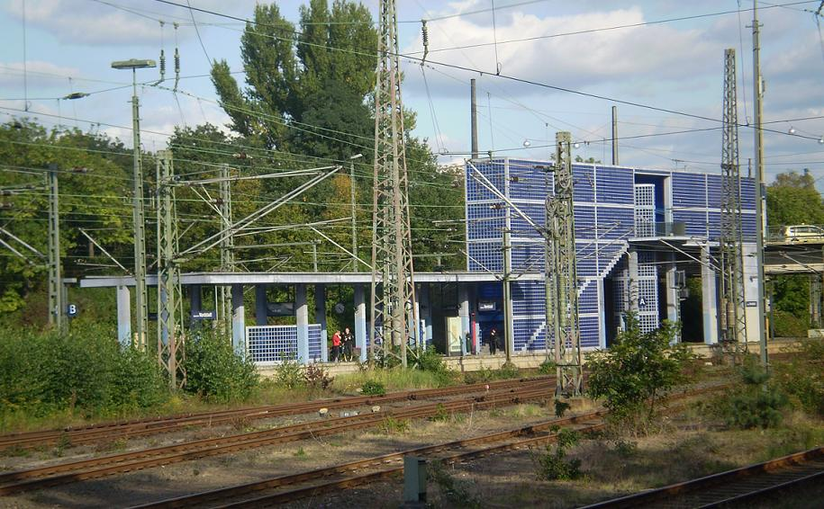 German S-Bahn railway station at Hannover-Nordstadt in Lower Saxony